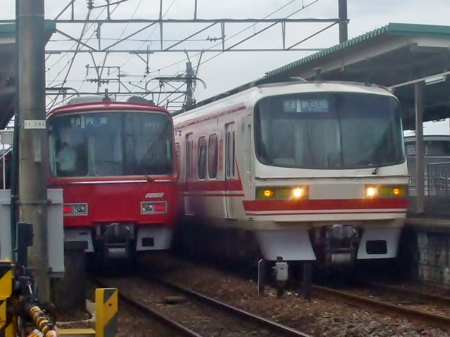 Meitetsu Nihonline-imawatari Station of Train Change Skatch